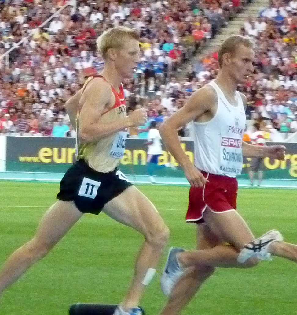 2010 European Championships in Athletics 3000m steeplechase final. Steffen Uliczka, Tomasz Szymkowiak